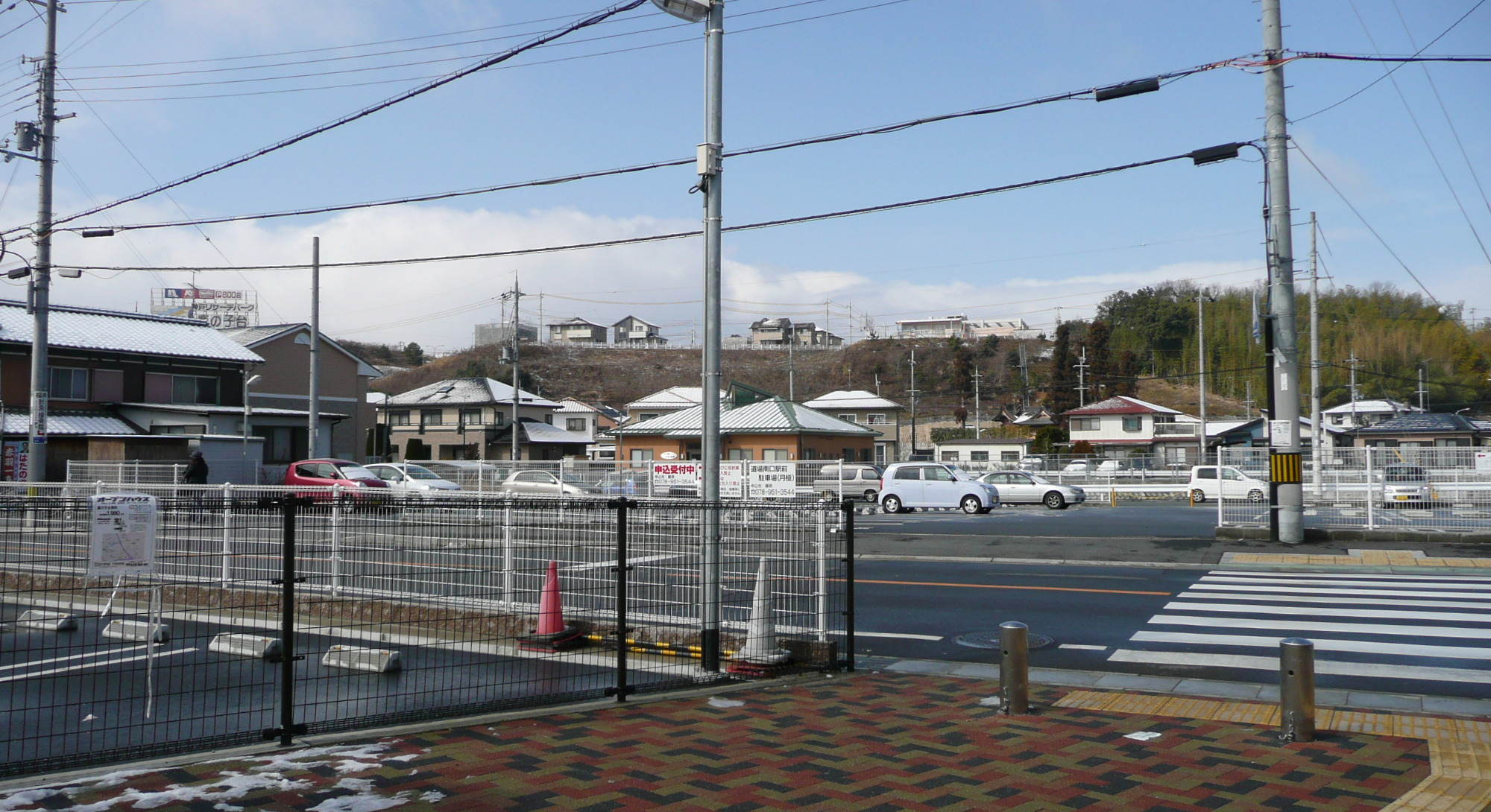 Kobe Electric Railway Dojo-Minamiguchi Station plaza